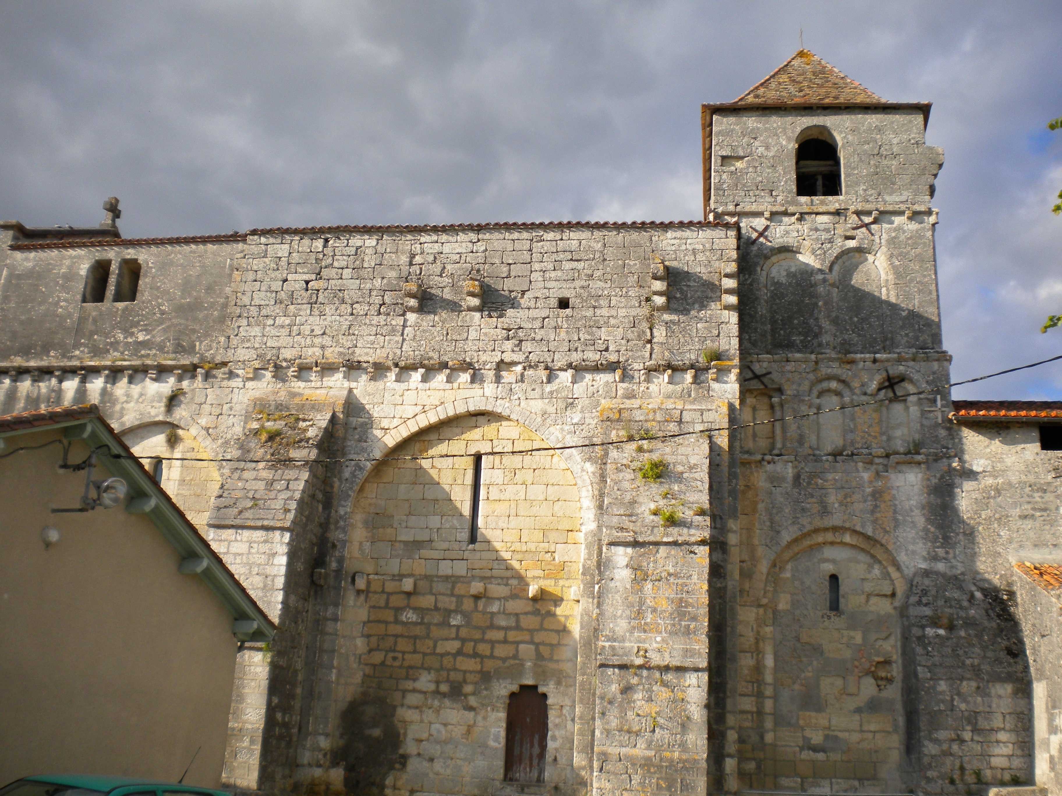 The fortified romanesque village church of Léguillac-de-Cercles, Dordogne, France.